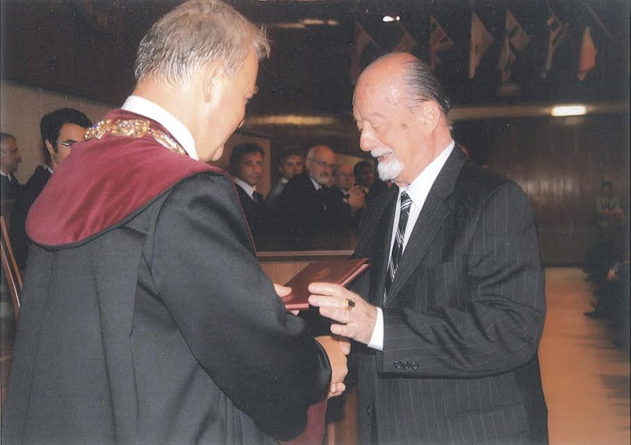 Dénes Karasszon